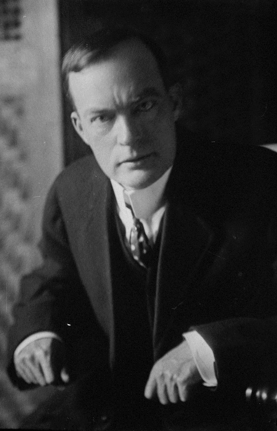 Francis O. Lindquist, Michigan Congressman